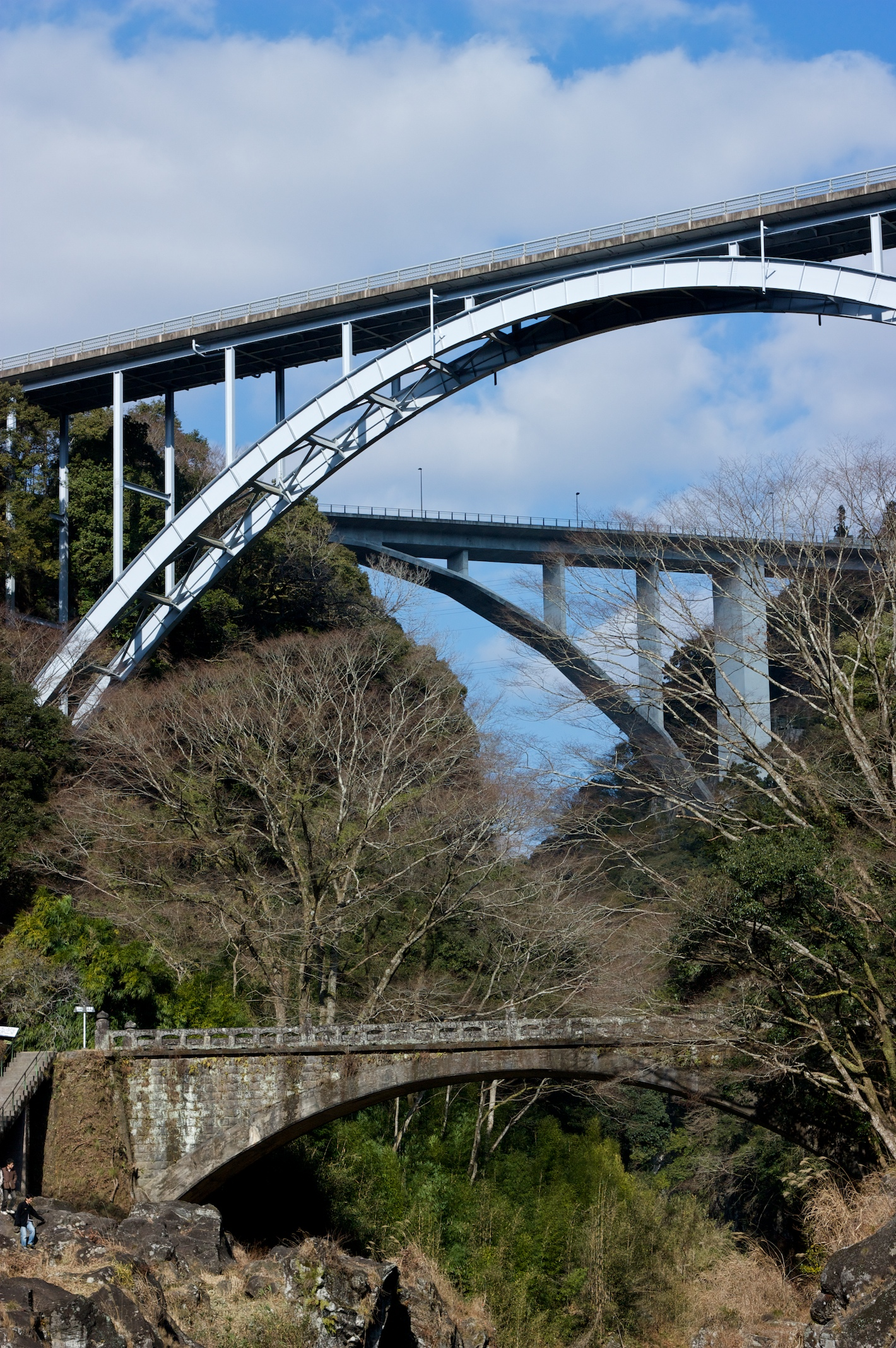 Arch bridges in Takachiho gorge, Miyasaki prefecture, Japan